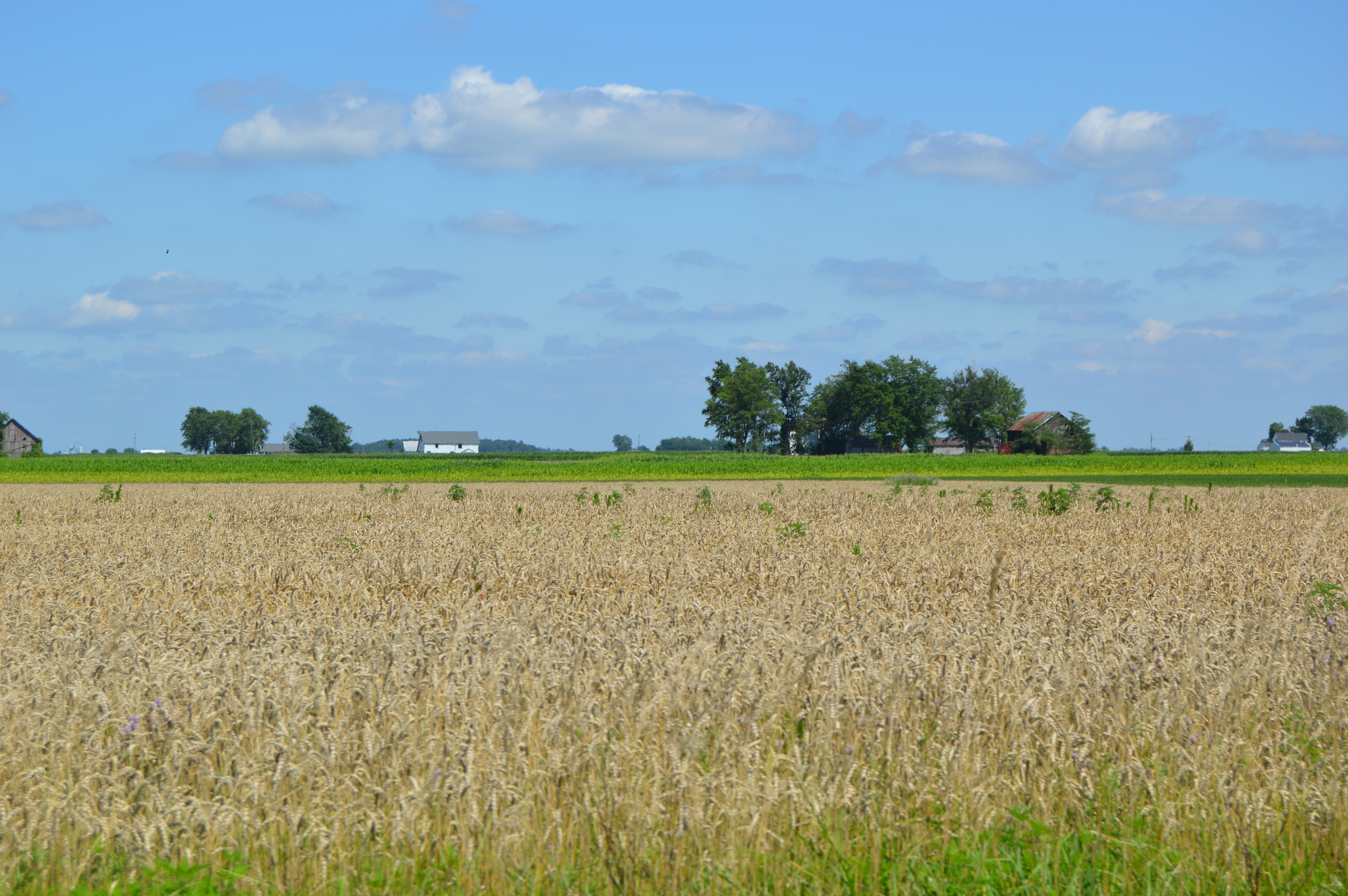 A wheat field in northern Jennings Township, Van Wert County, Ohio, United States.